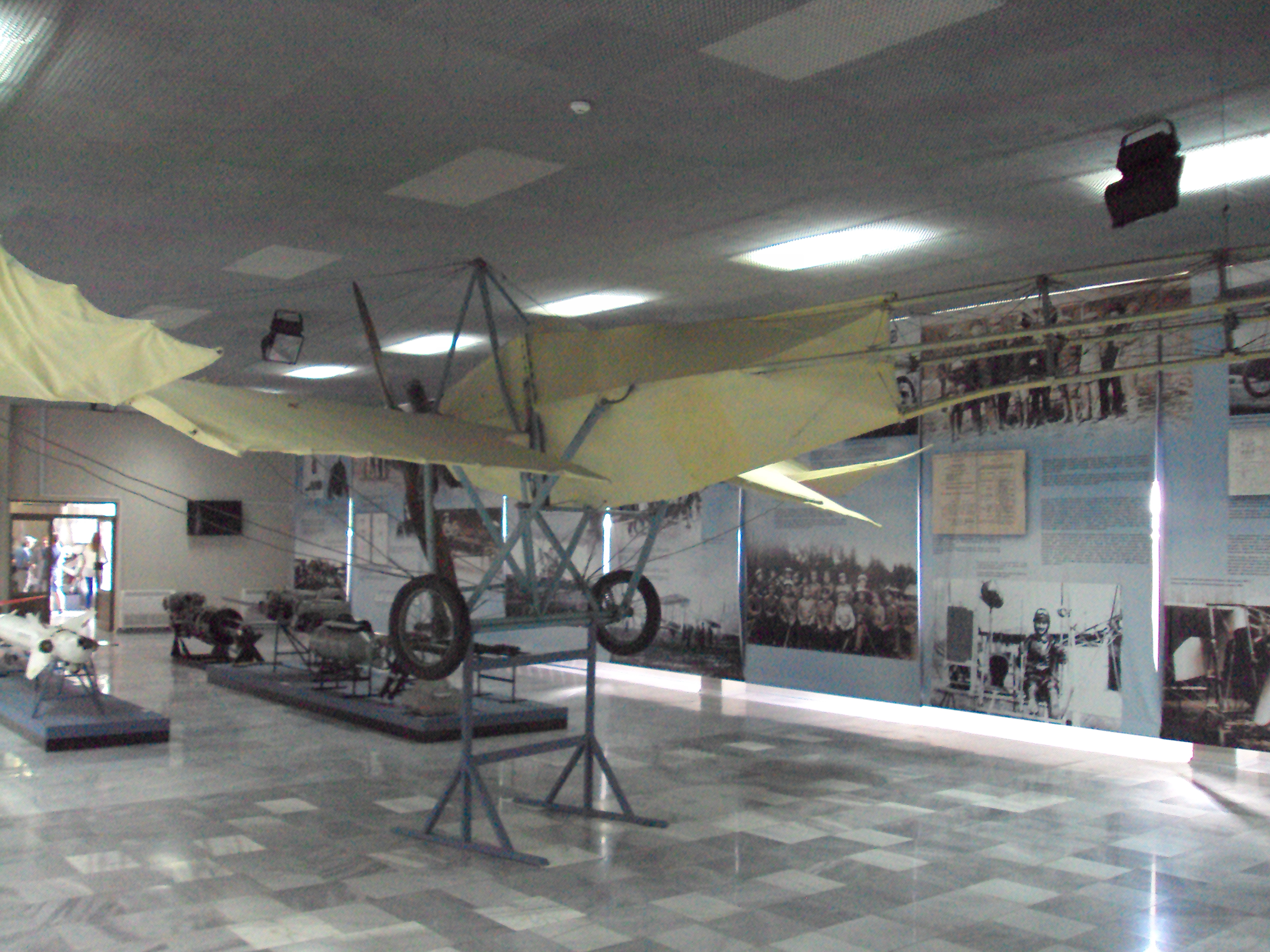 Aviation Museum in Plovdiv